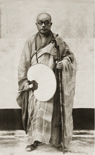 Photo of Venerable Master Taixu (太虛大師) (1890-1947), a Chinese Buddhist monk and scholar.